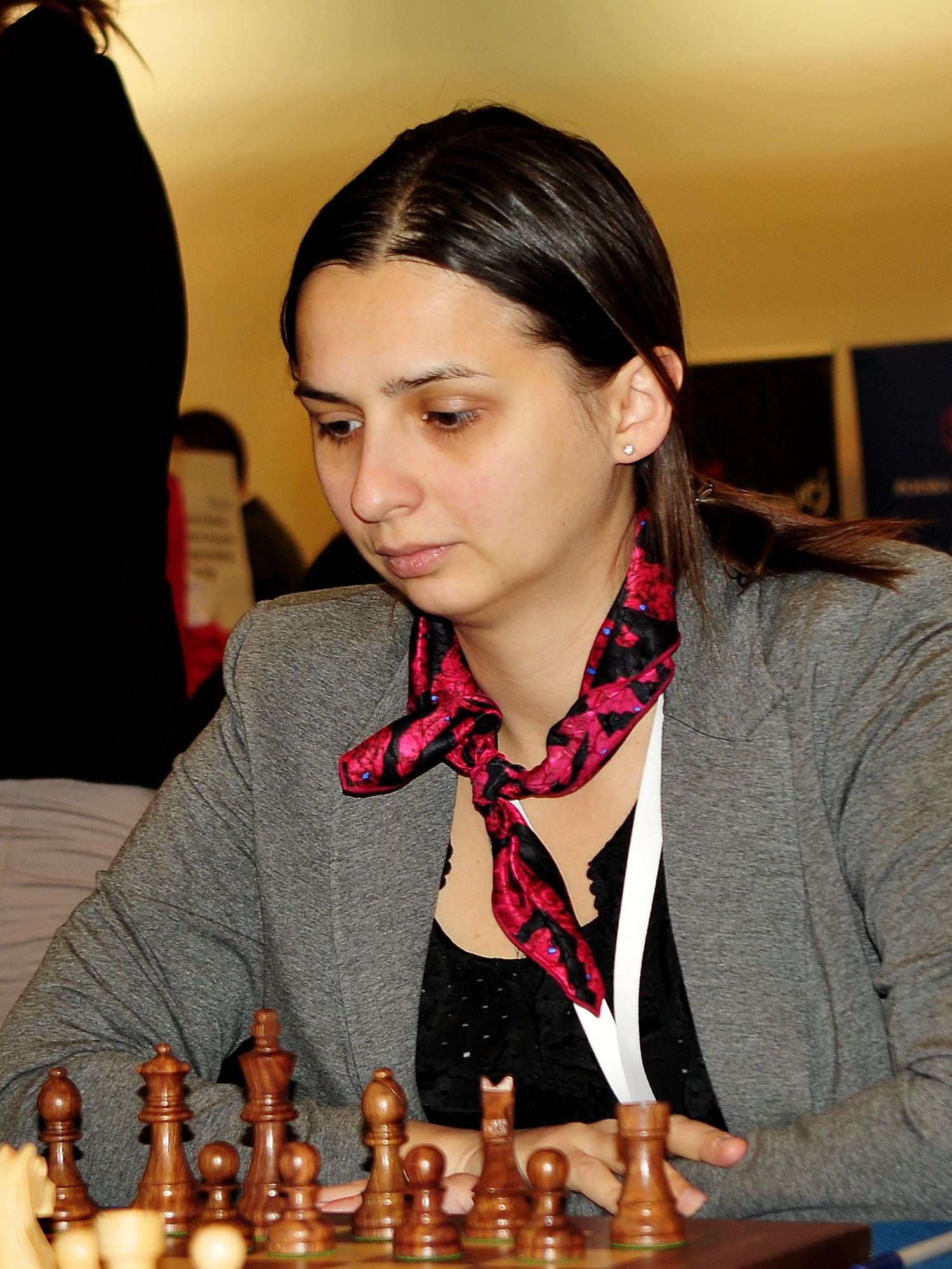 IM Iweta Rajlich, European Chess Team Championship Warsaw 2013